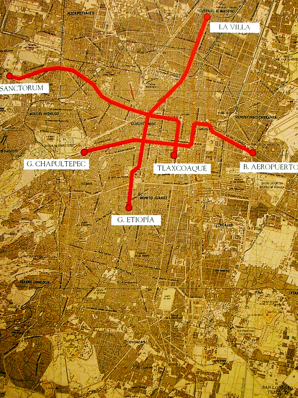 Photograph of map of stage 1 of the metro of Mexico City. Map prepared in 1967.